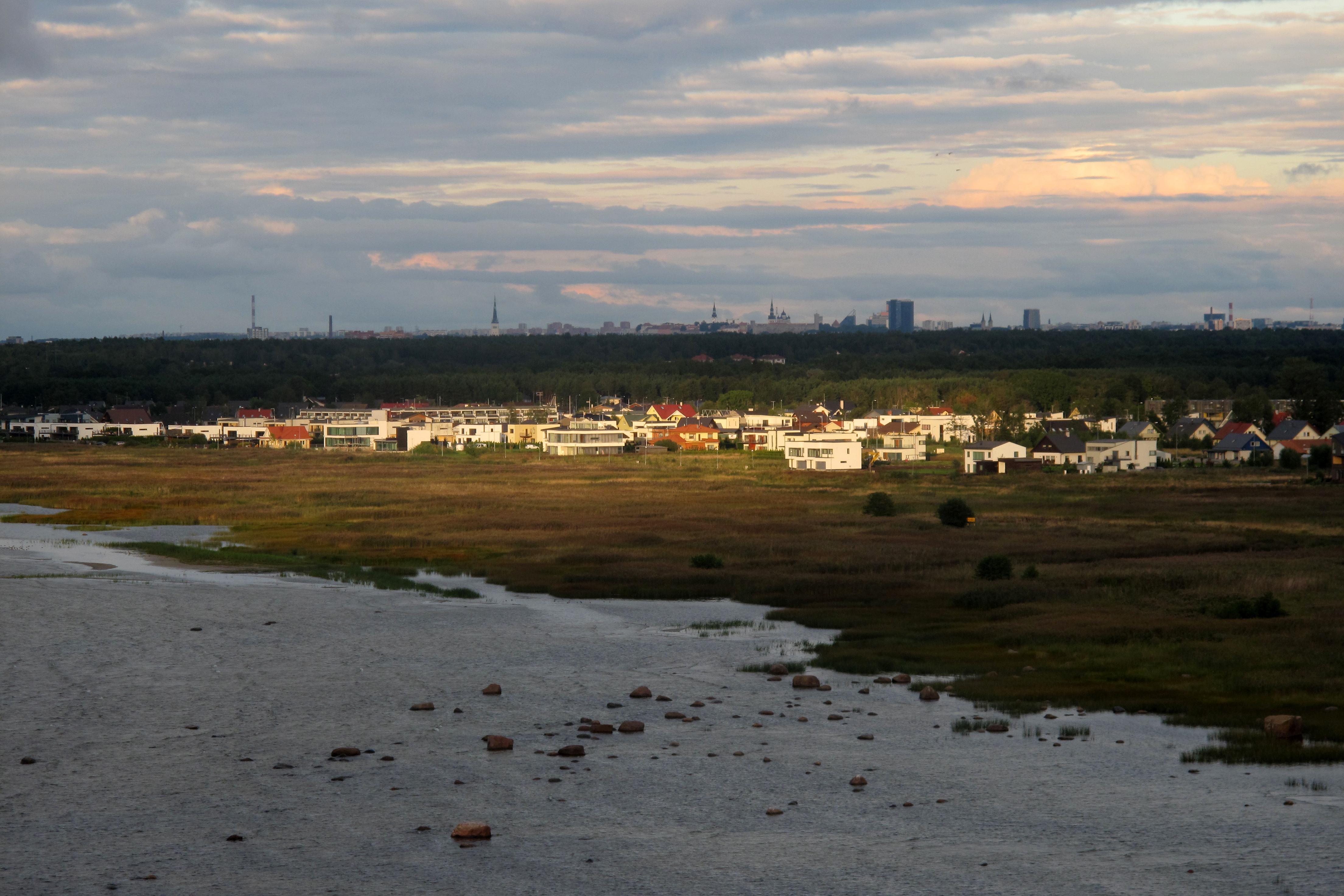 Tiskre suburb, Tallinn, Estonia